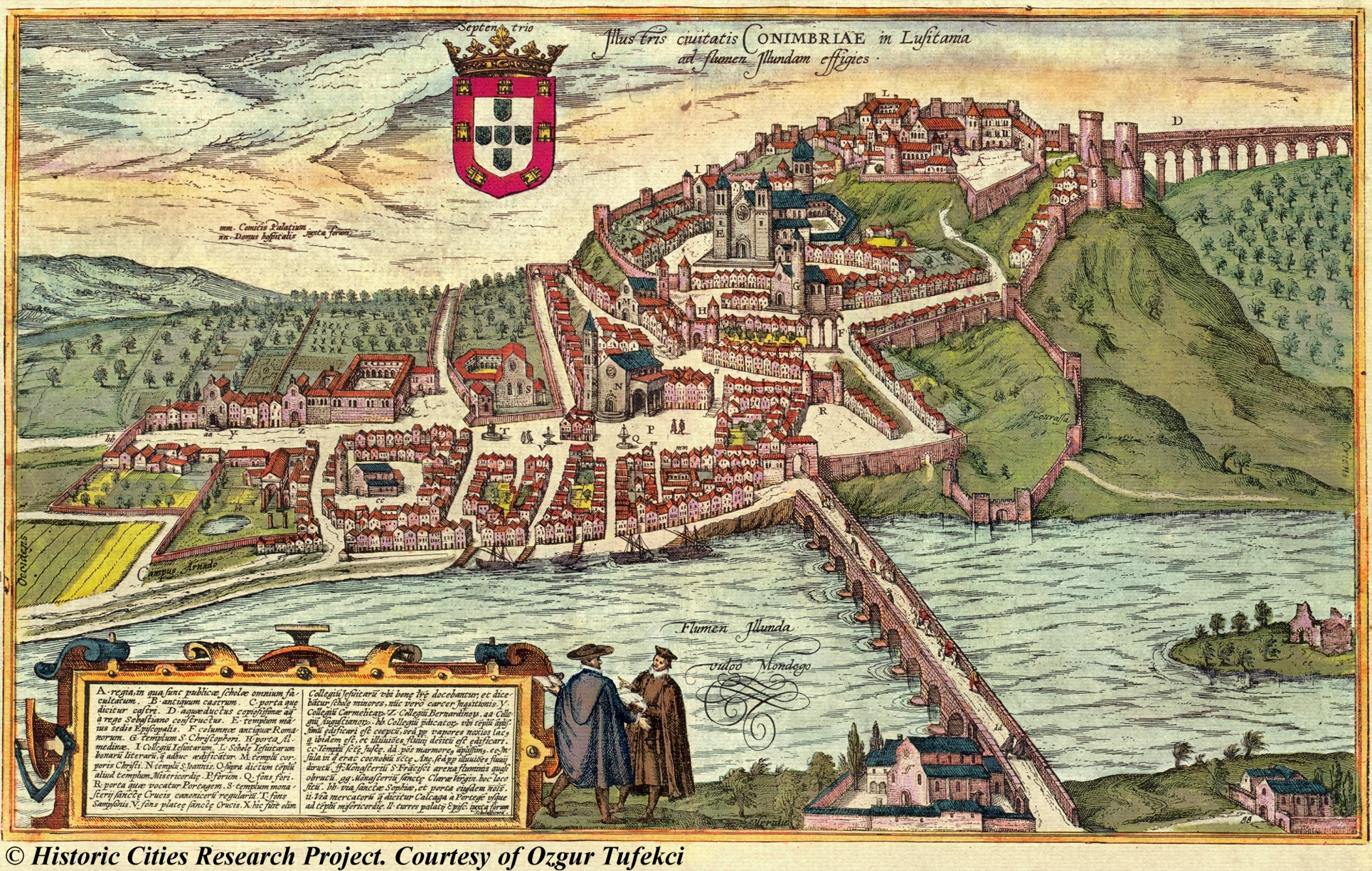 View of the city of Coimbra, Portugal, made by Frans Hogenberg ca. 1598, and published by Georg Braun (1541-1622) in Civitates Orbis Terrarum, vol. V (1598). Original latin description: Illustris civitatis Comimbriae in Lusitania ad flumen Illundam effigies.